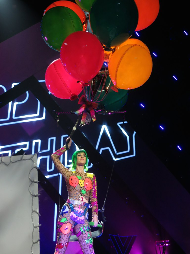 Katy Perry performing "Birthday", The Prismatic World Tour, Glasgow SSE Hydro 17 May 2014